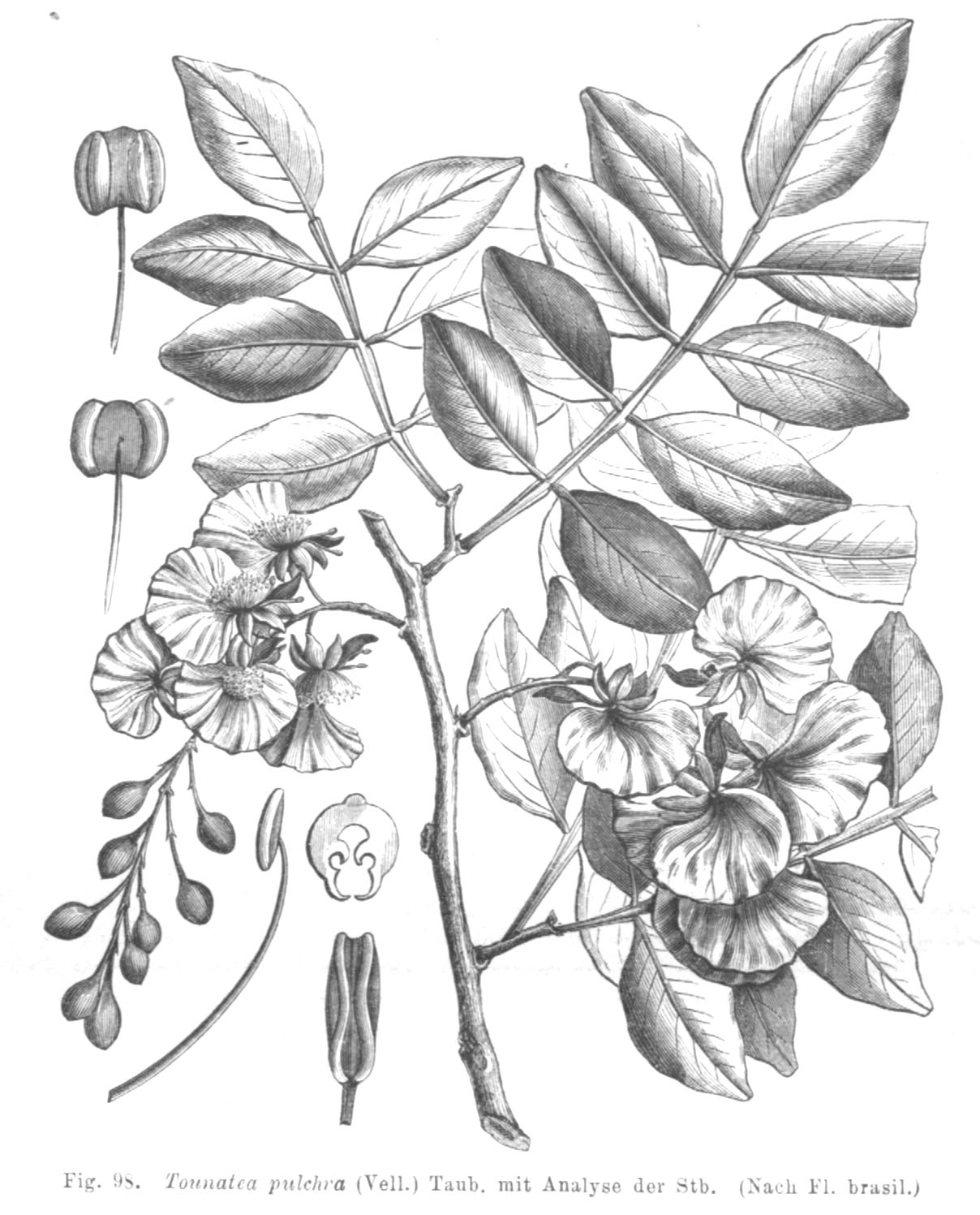 Illustration from book